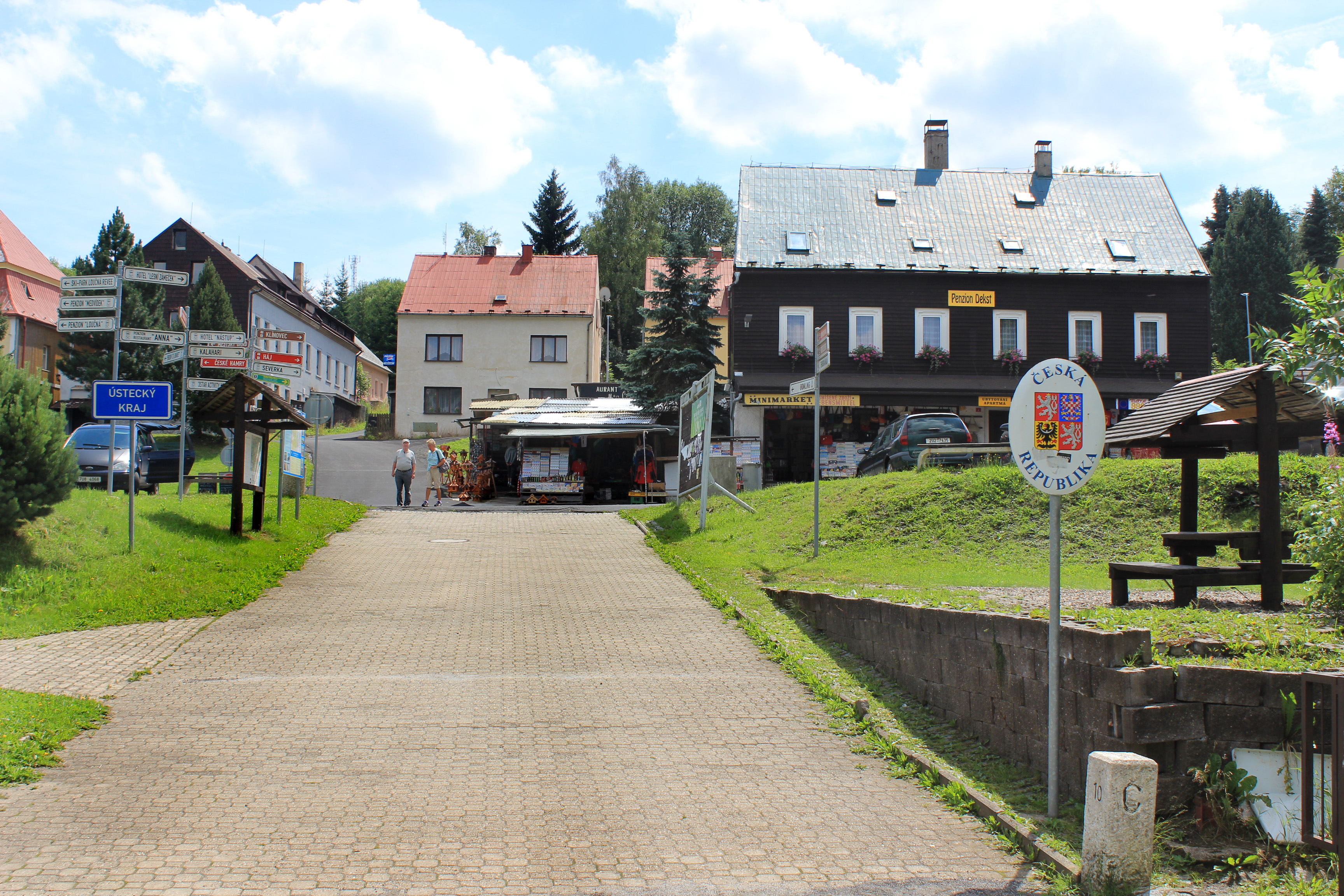 Border crossing between Loučná pod Klínovcem, Czech Republic, and Oberwiesenthal, Germany.